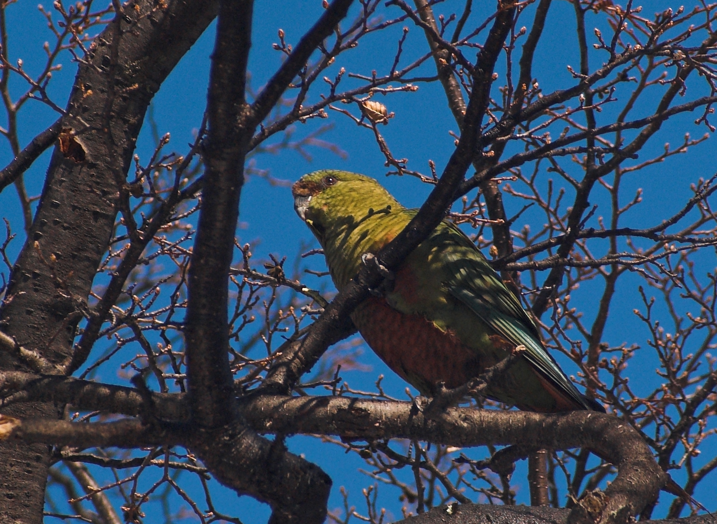 Austral Parakeet (Enicognathus ferrugineus) seen near Laguna Onelli, Glaciers National Park, Santa Cruz, Argentina.